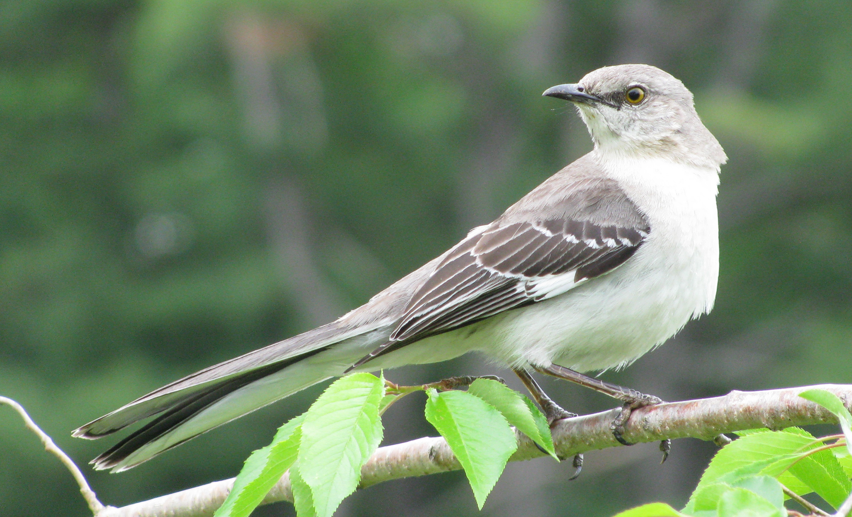 An adult Mimus polyglottos en (commonly known as a Northern Mockingbird) perching on a weeping cherry tree in New Hampshire.